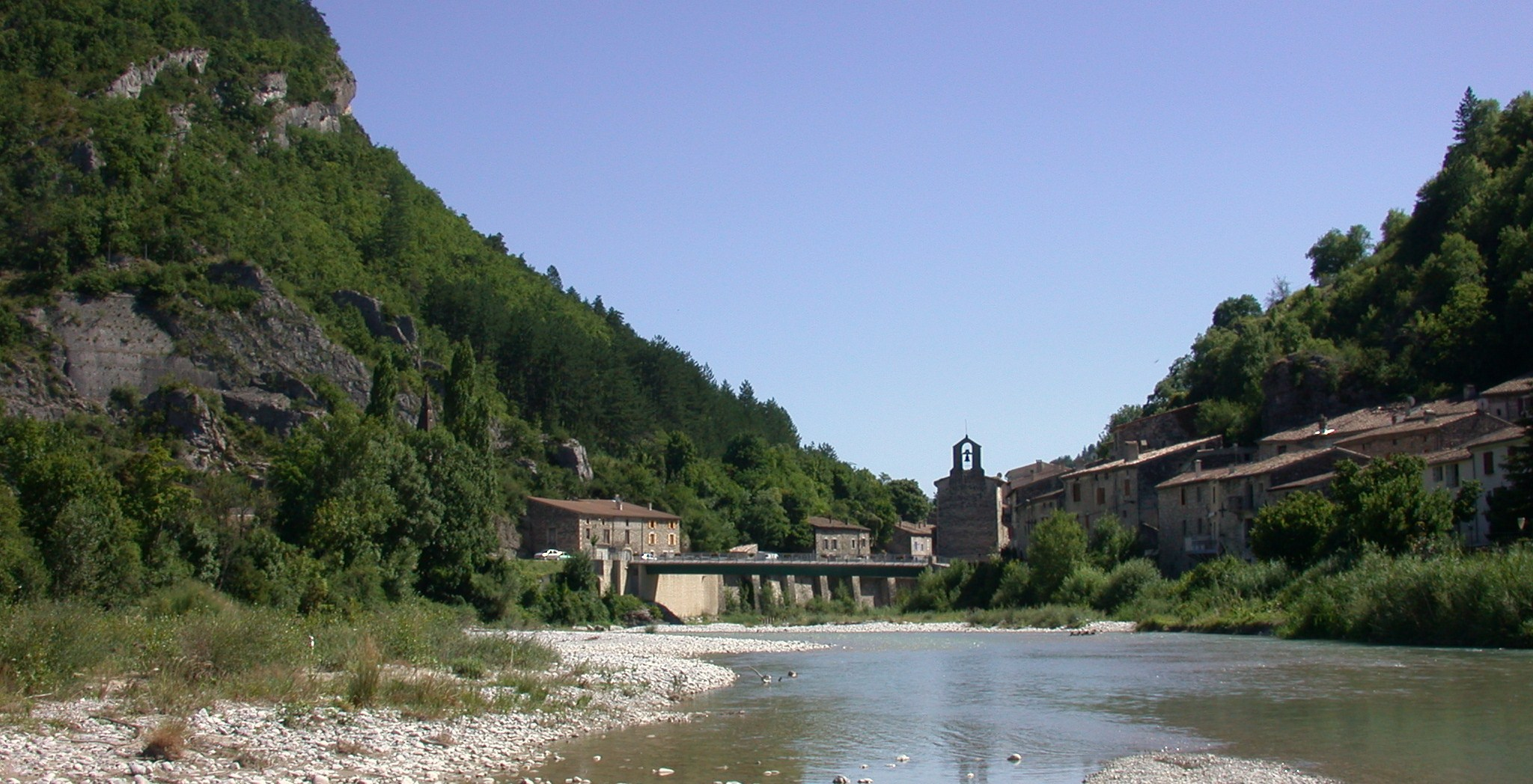 view of the village Pontaix